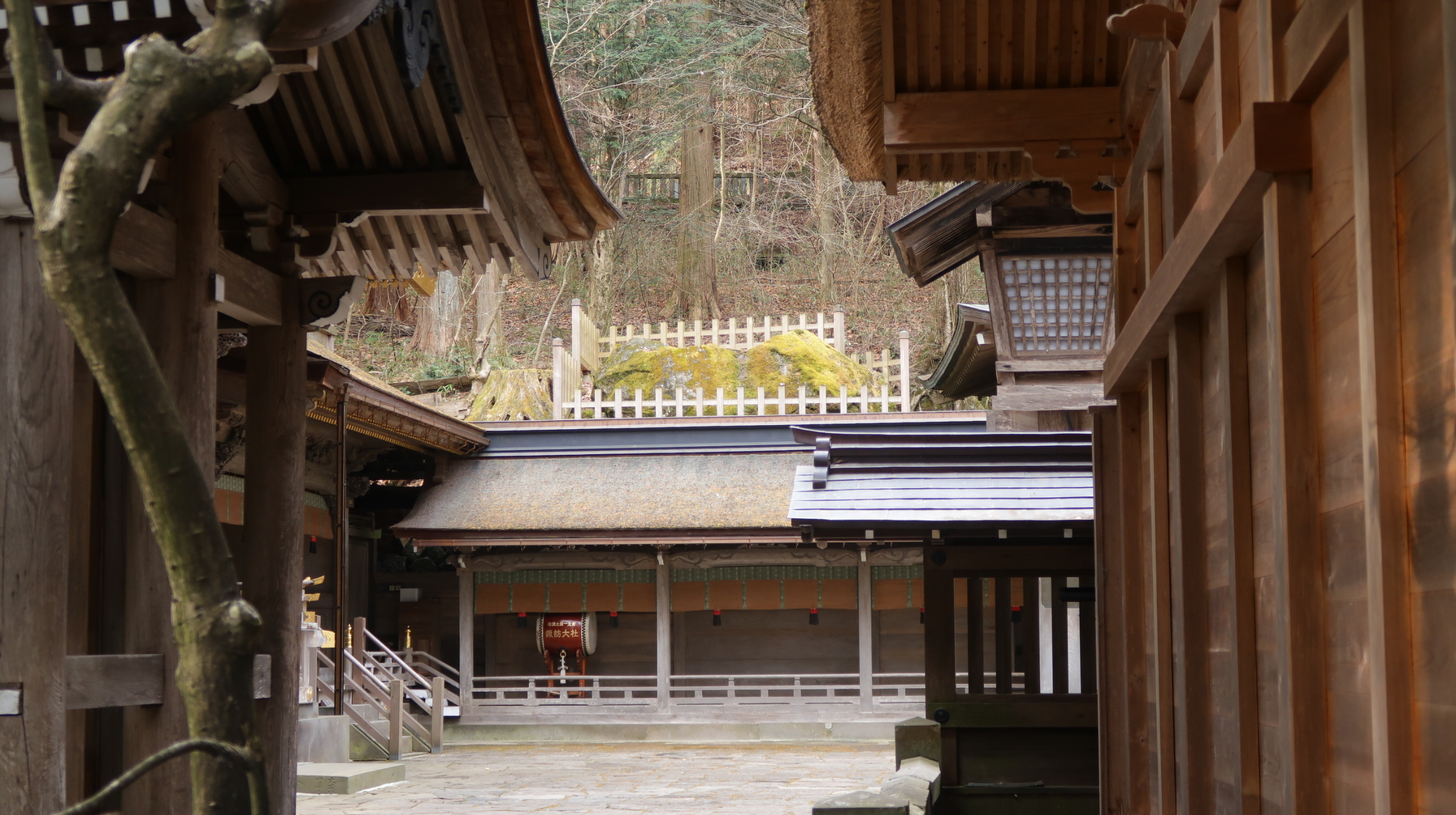 Suzuri-ishi (Suwa Taisha Kamisha Honmiya)